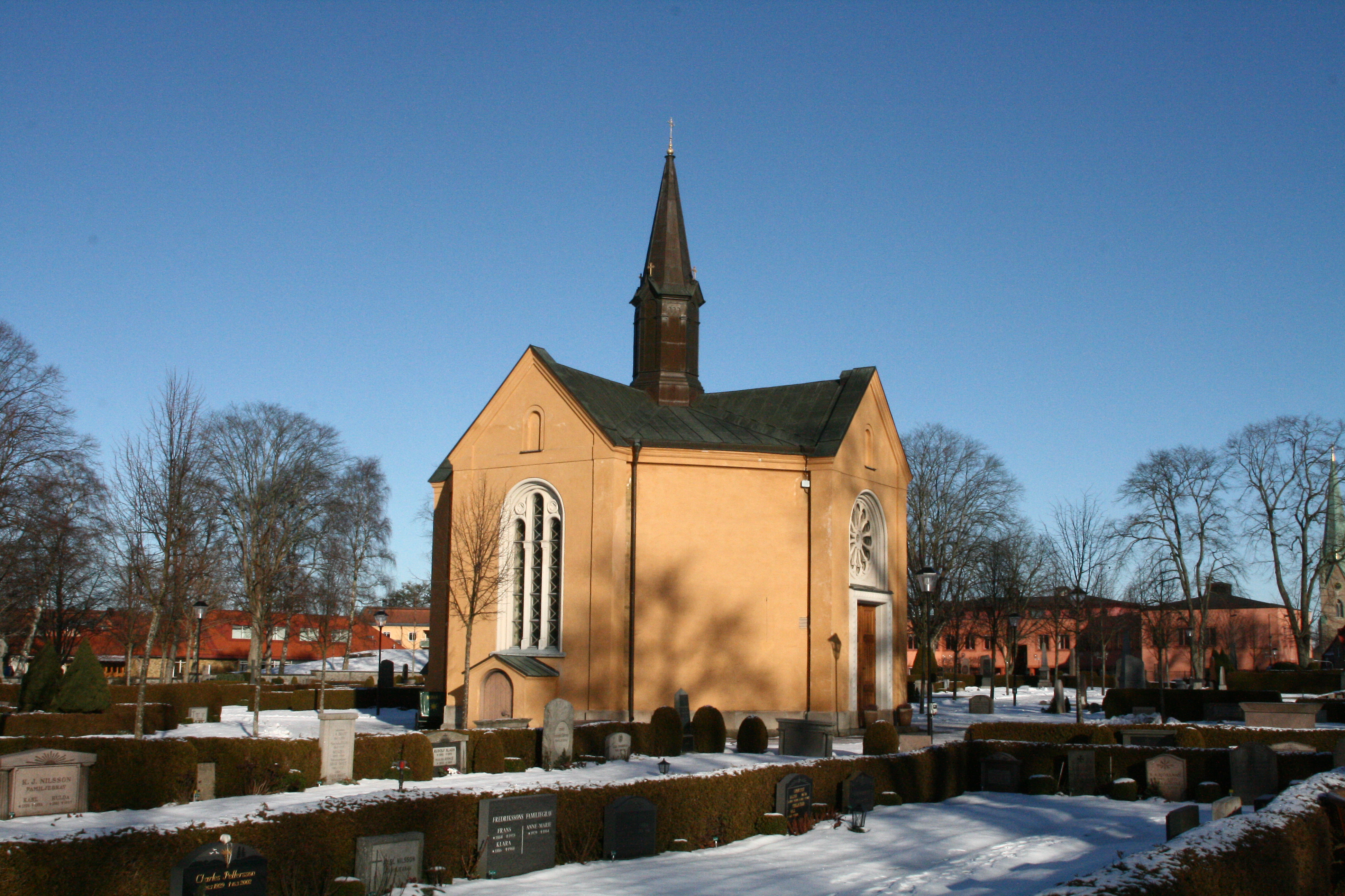 Yellow octagonal funeral chapel, Linköping central cemetery, northern section, in the winter.